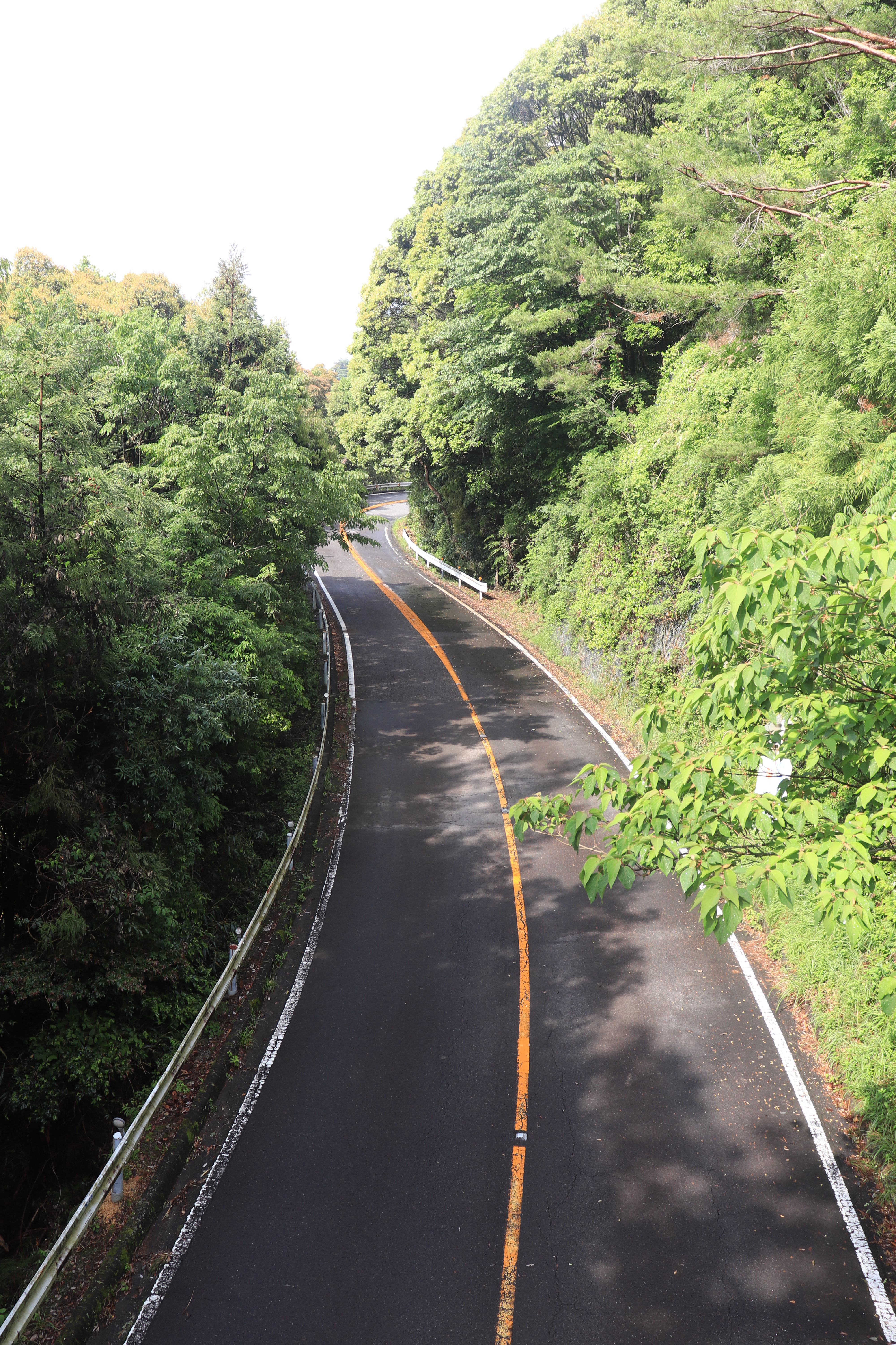 Horaiji Parkway in Mount Horaiji, Shinshiro, Aichi Prefecture, Japan.